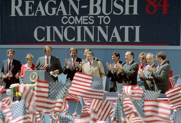 8/20/1984 President Reagan during a trip to Cincinnati, Ohio at a Reagan-Bush Rally at Fountain Square